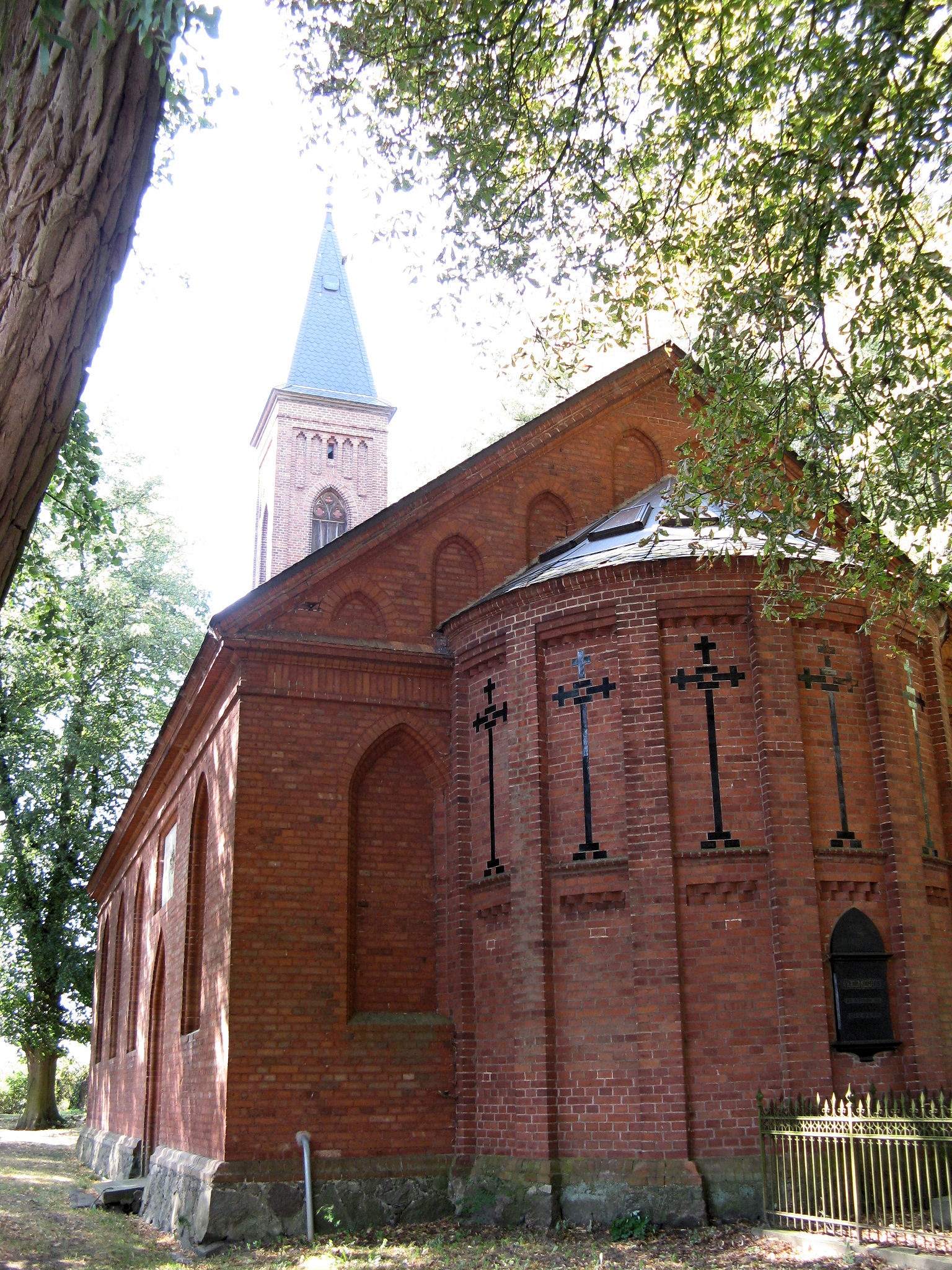 Church in Groß Markow, disctrict Güstrow, Mecklenburg-Vorpommern, Germany